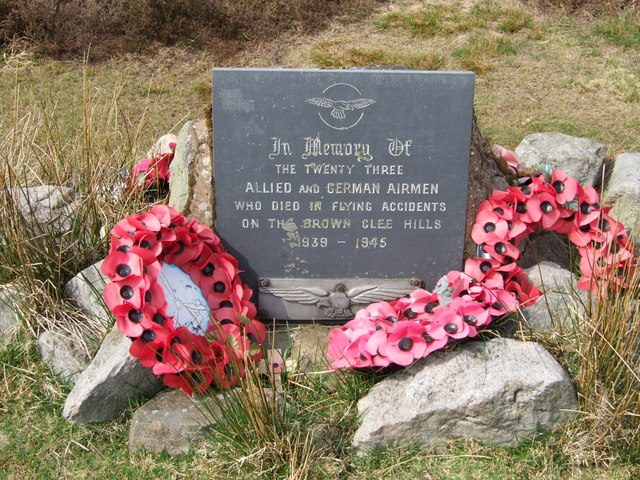 Memorial to airmen who have crashed on the Brown Clee hill The Brown Clee hill, at 540 m, is the highest point in Shropshire so, not surprisingly perhaps, has been the site of a number of air crashes mainly during the second world war.